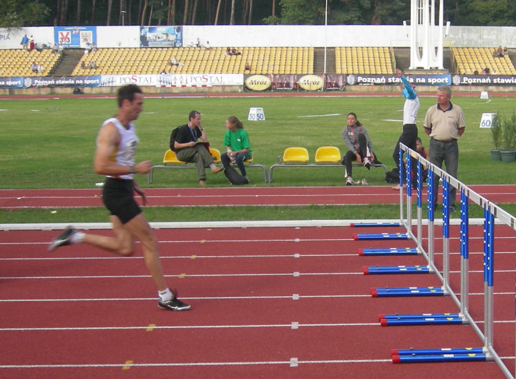 athlete from Poland during Polish Championship in athletics 2007 - Poznań